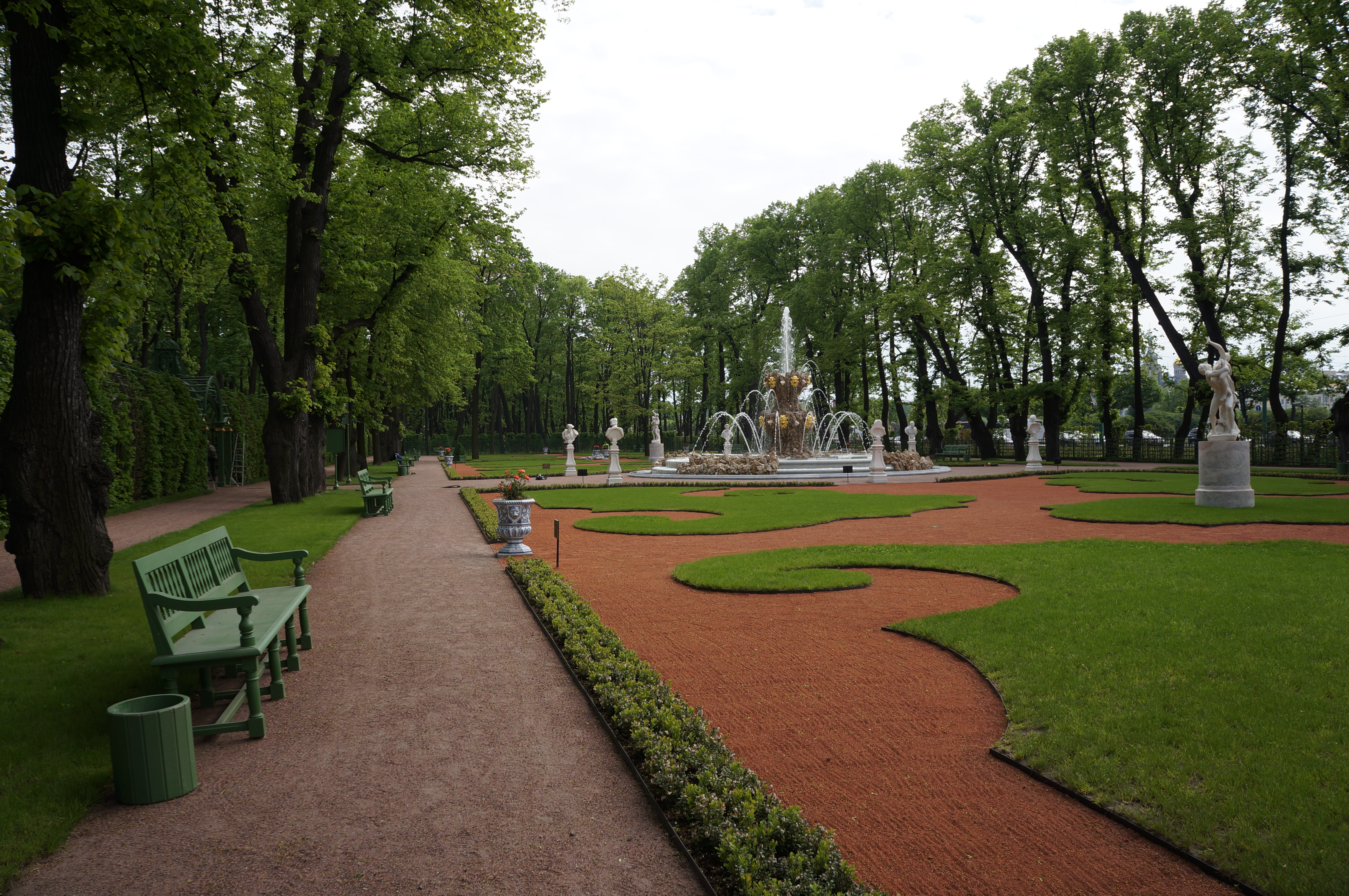 Летний сад. Французский партер. Фонтан "Коронный". 2012 г.